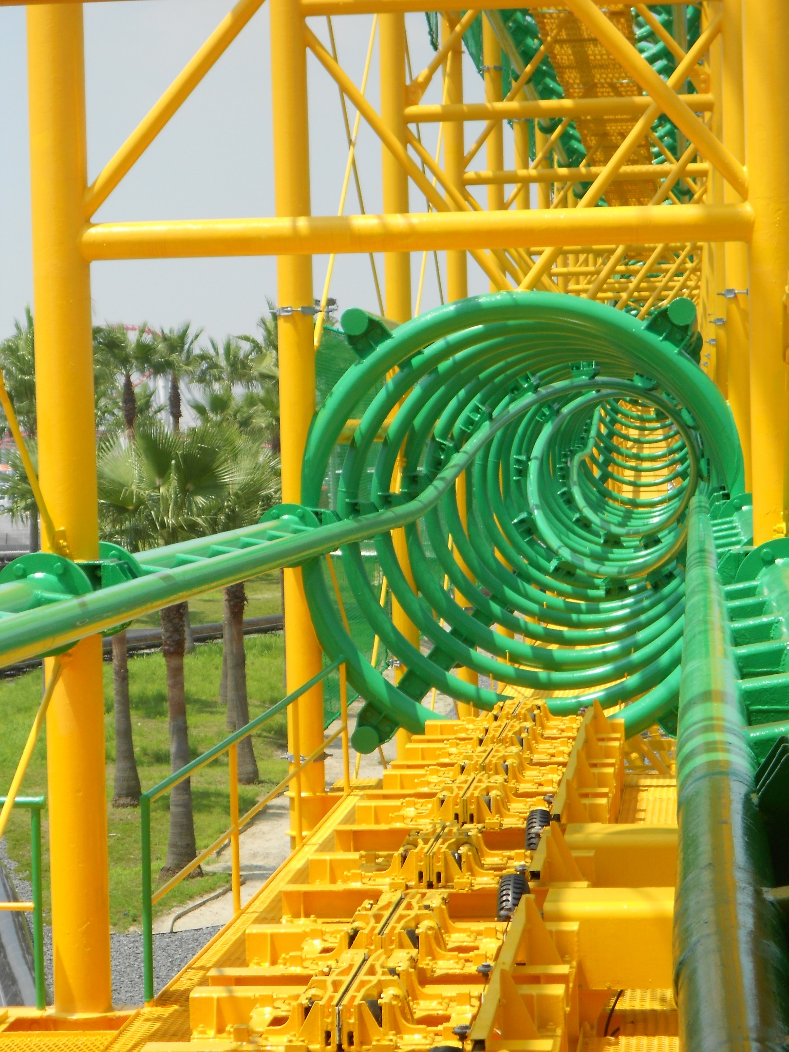 This picture shows the last loop of the roller coaster Ultra Twister (Nagashima Spa Land), located at Nagashima Spa Land in Japan.